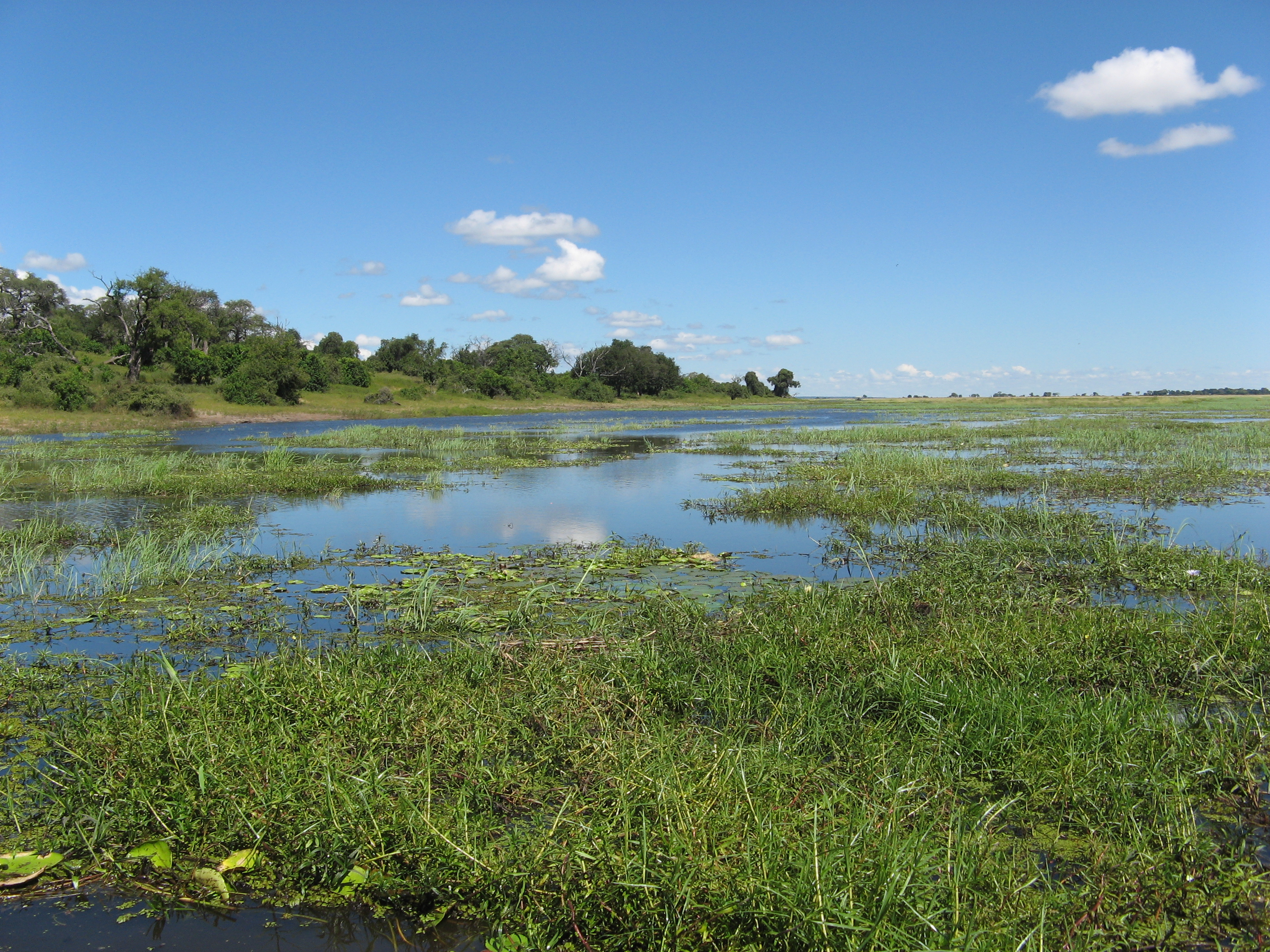 zambezi river, chobe national park, botswana